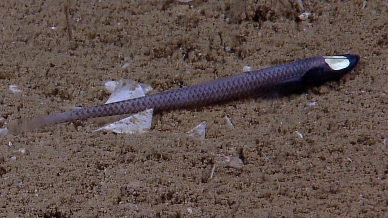 Deep sea fish Image ID: expl7094 , Voyage To Inner Space - Exploring the Seas With NOAA Collect Location: Gulf of Mexico, North Credit: NOAA Okeanos Explorer Program, Gulf of Mexico 2012 Expedition